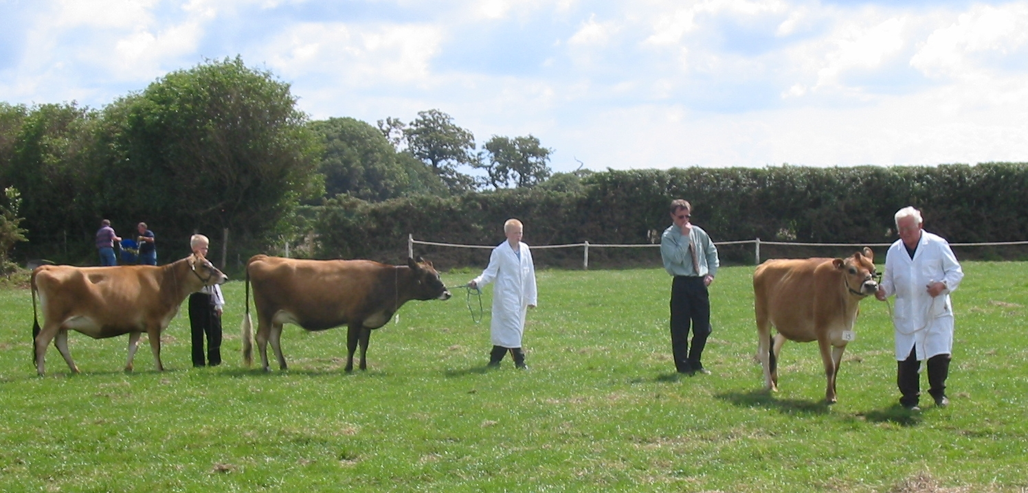 Jersey cattle being judged at the West Show, St. Peter, Jersey Image created by User:Man vyi on 1st May 2005 Category:Images of Jersey